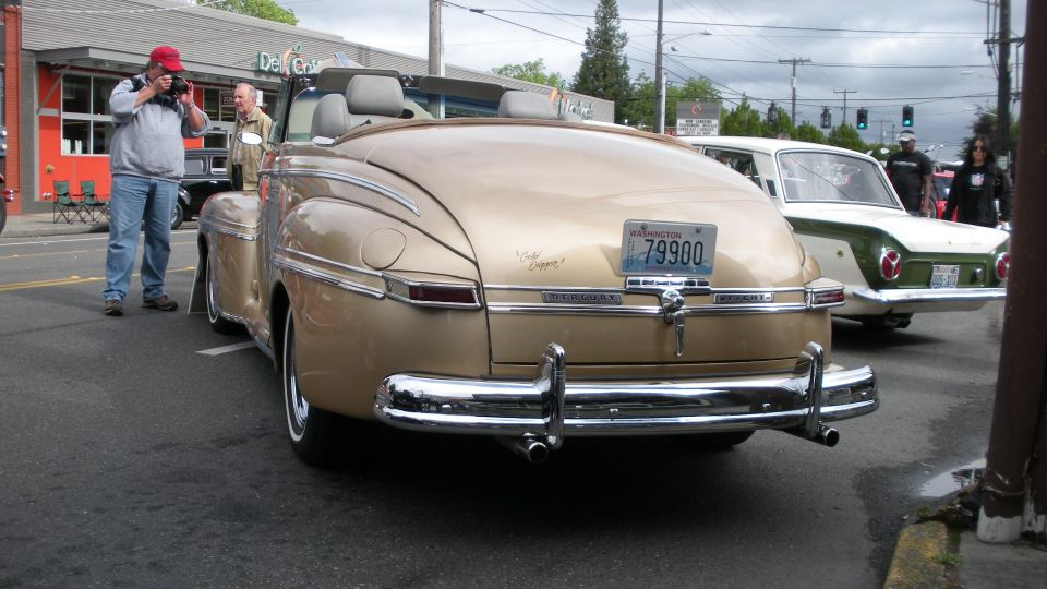 Photo taken at the Greenwood Car Show in Seattle Washington.